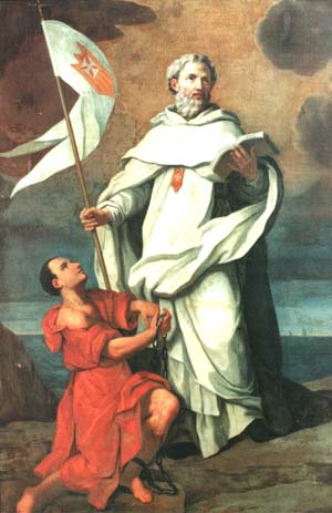 Traditional image of St. Peter Nolasco as found in the Generalate of the Mercedarian Order as well as on their website: , on the cover of their history book [1] and on many holy cards and devotional pictures of the order (see example in uploading history).